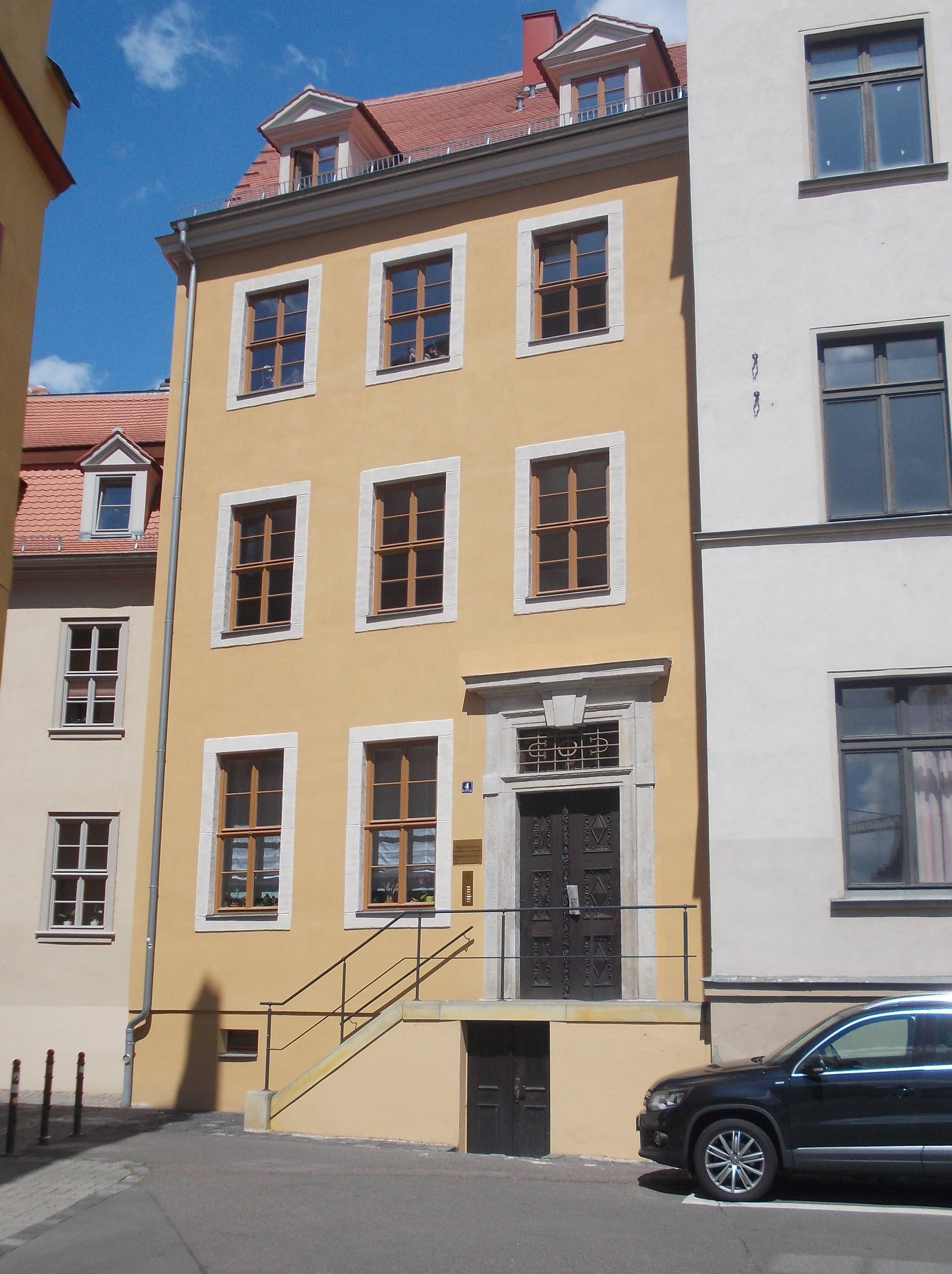 No. 4, Kleine Klausstrasse in Halle/Saale (Saxony-Anhalt)